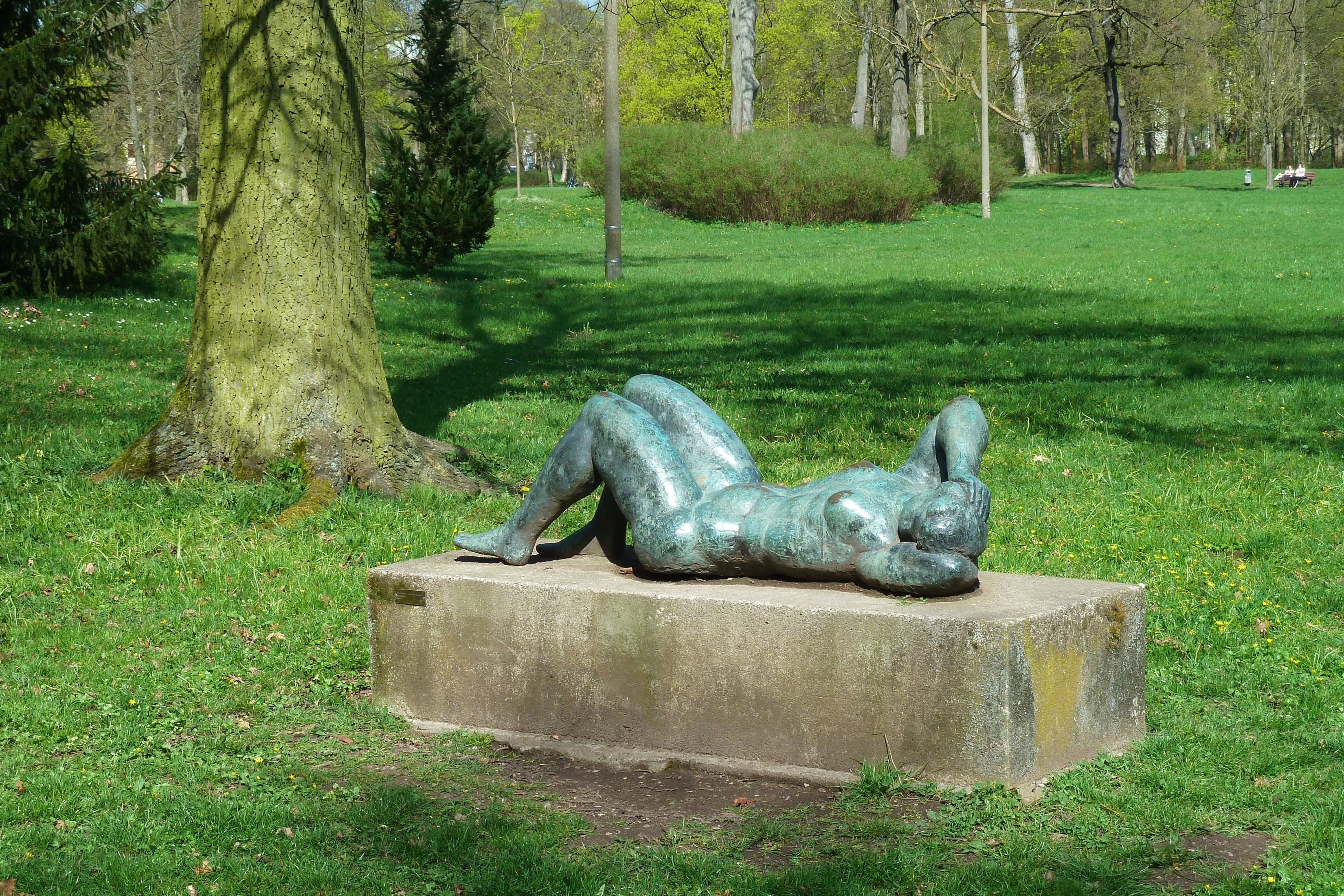 Publik Garden in City Meiningen, Germany